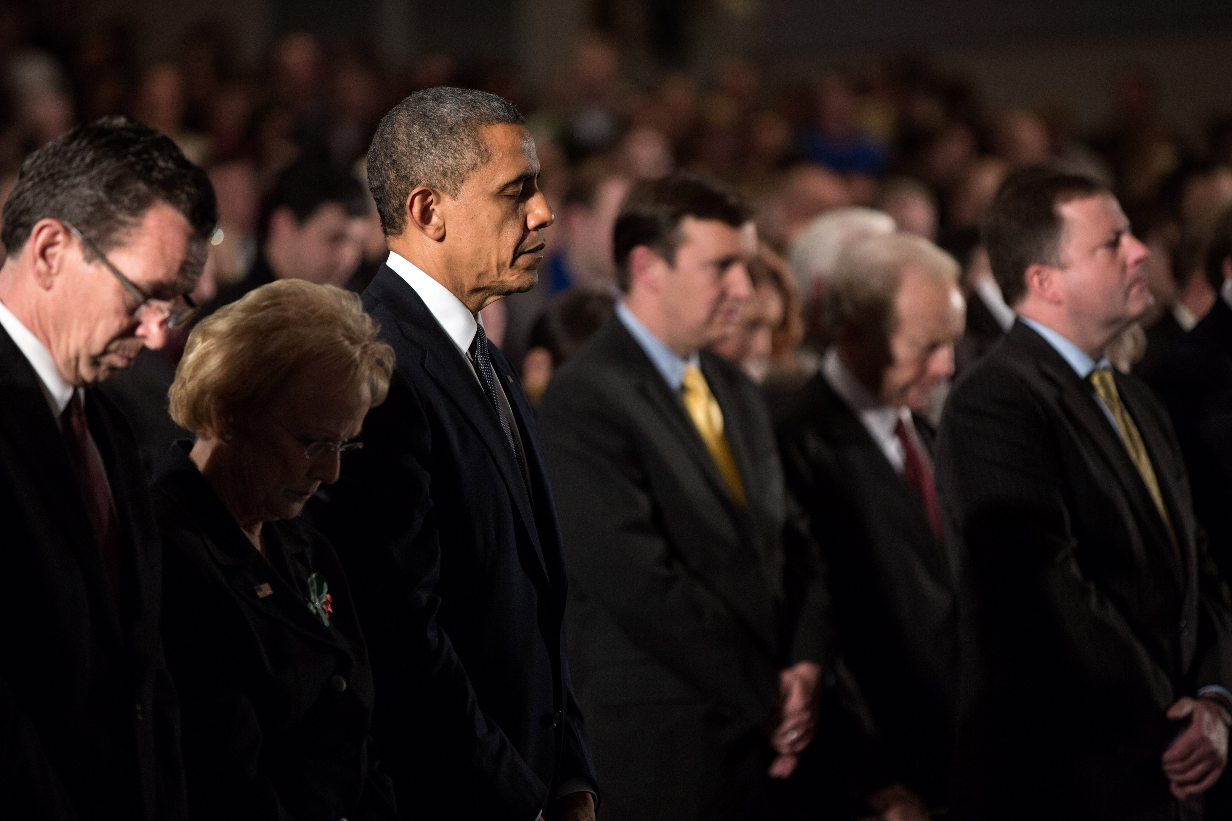 United States President Barack Obama attends a Sandy Hook interfaith vigil at Newtown High School in Newtown, Connecticut, on 16 December 2012.